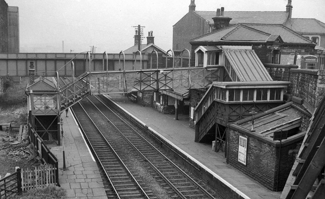 Burnley Barracks Station. View eastward, towards Colne; ex-Lancashire & Yorkshire main line, Preston/Manchester - Blackburn - Accrington - Burnley - Colne.